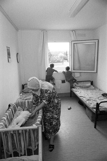 Asylum seeker in Gauting (Bavaria, Germany)